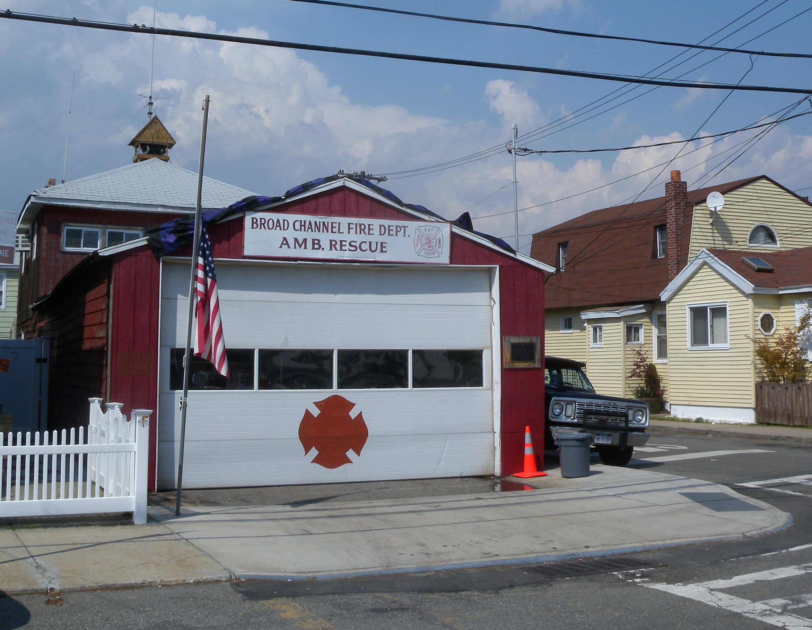 Looking northeast from St Virgilius Church at Volunteer fire station on a mostly sunny afternoon.